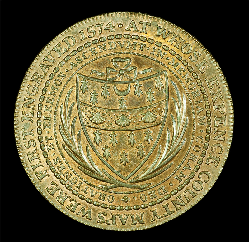 Thomas Sekford One Penny British Conder Token, issued 1796. Reverse.